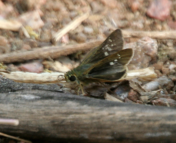 Rice swift Borbo cinnara in Kawal Wildlife Sanctuary, Andhra Pradesh, India.